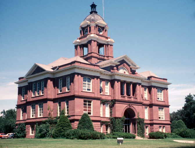 Grant County, Minnesota courthouse